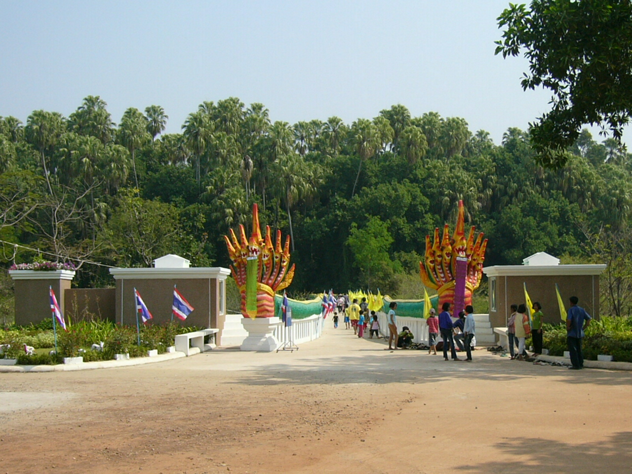 Wat Kham Chanot near Ban Dung, Udon Thani province, Thailand - entrance of the bridge towards the island - note the nāga snake decorations.